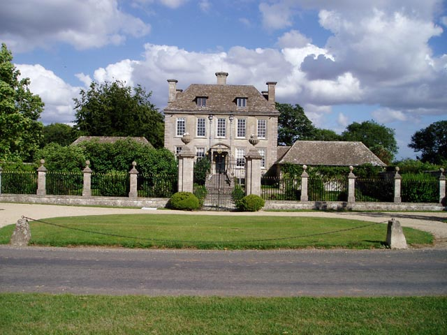 Nether Lypiatt Manor. The former country seat of Prince and Princess Michael of Kent.